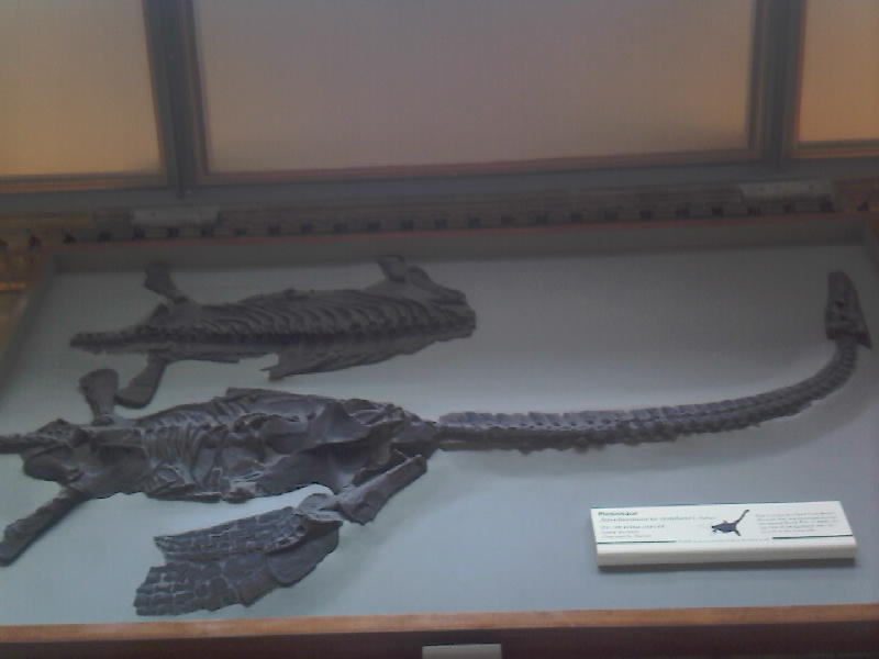 Attenborosaurus reconstruction at the Natural History Museum in London, England.